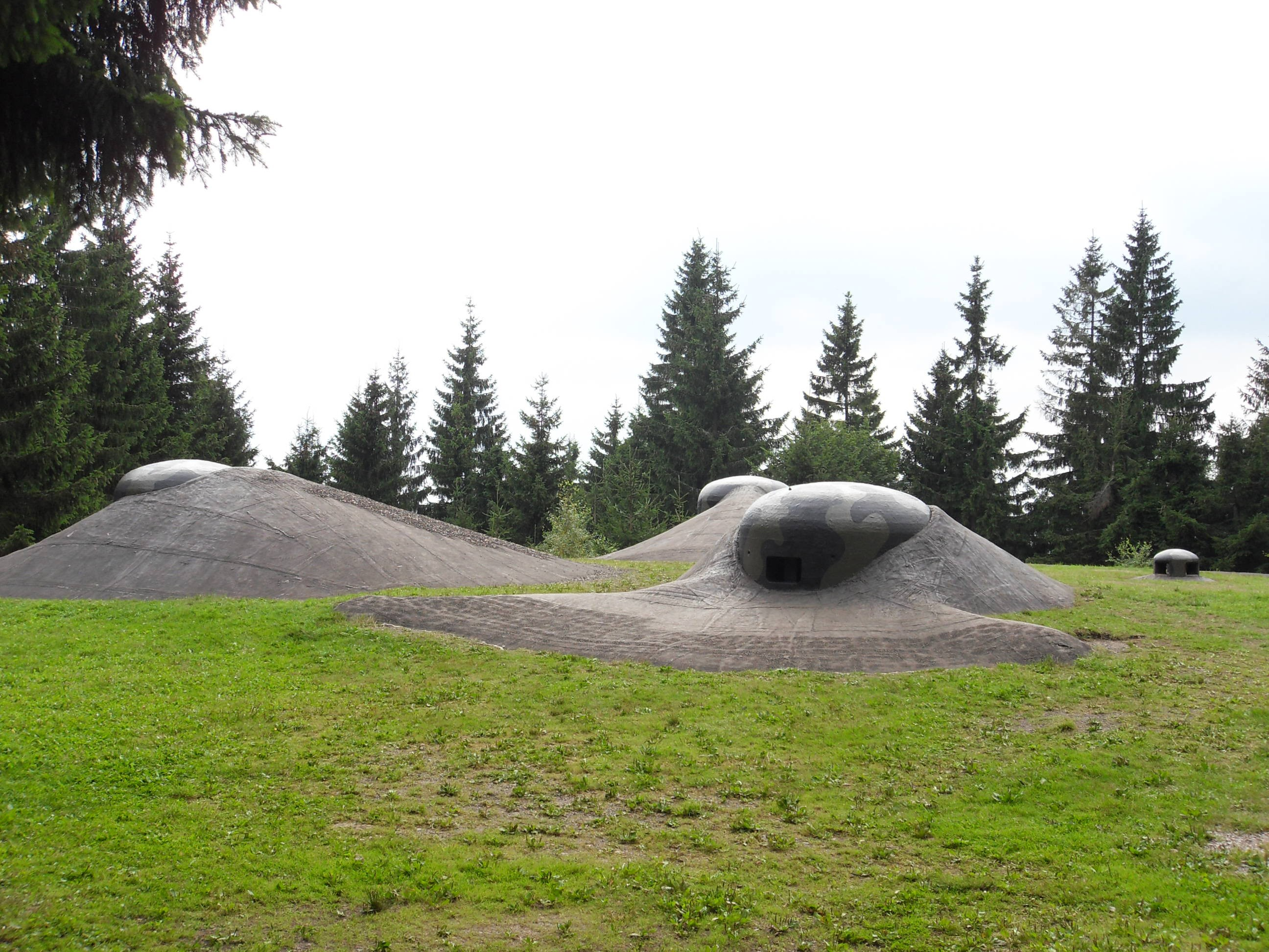 R-S 76 U lomu infantry casemate, Hanička fortress, Rychnov nad Kněžnou District, Czech Republic